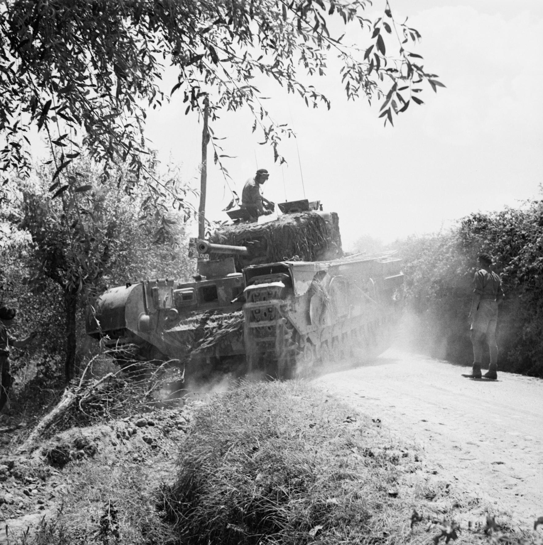 The British Army in Italy 1944 Churchill tank of the North Irish Horse during the advance towards Florence, 23 July 1944.